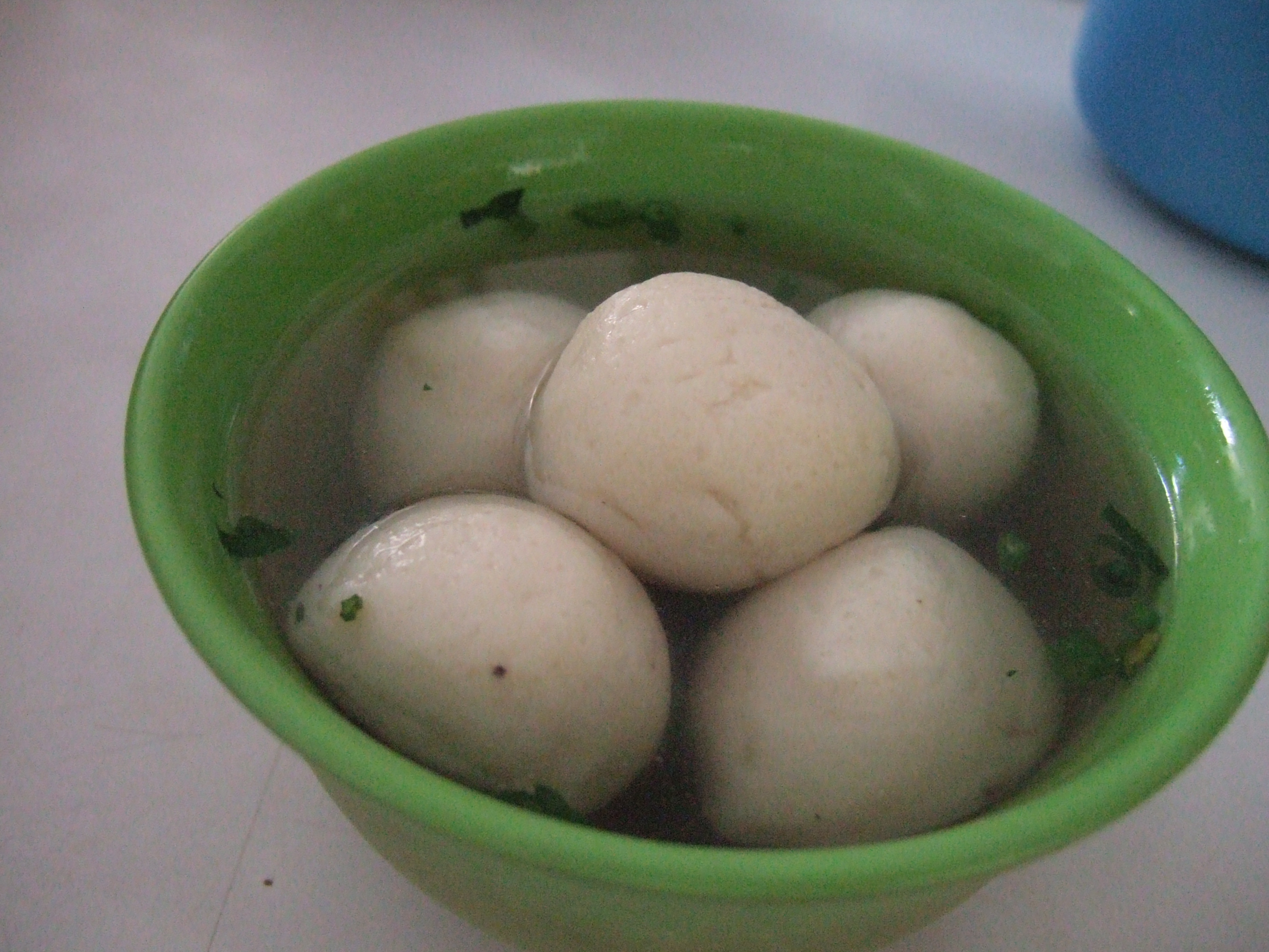 Fish ball